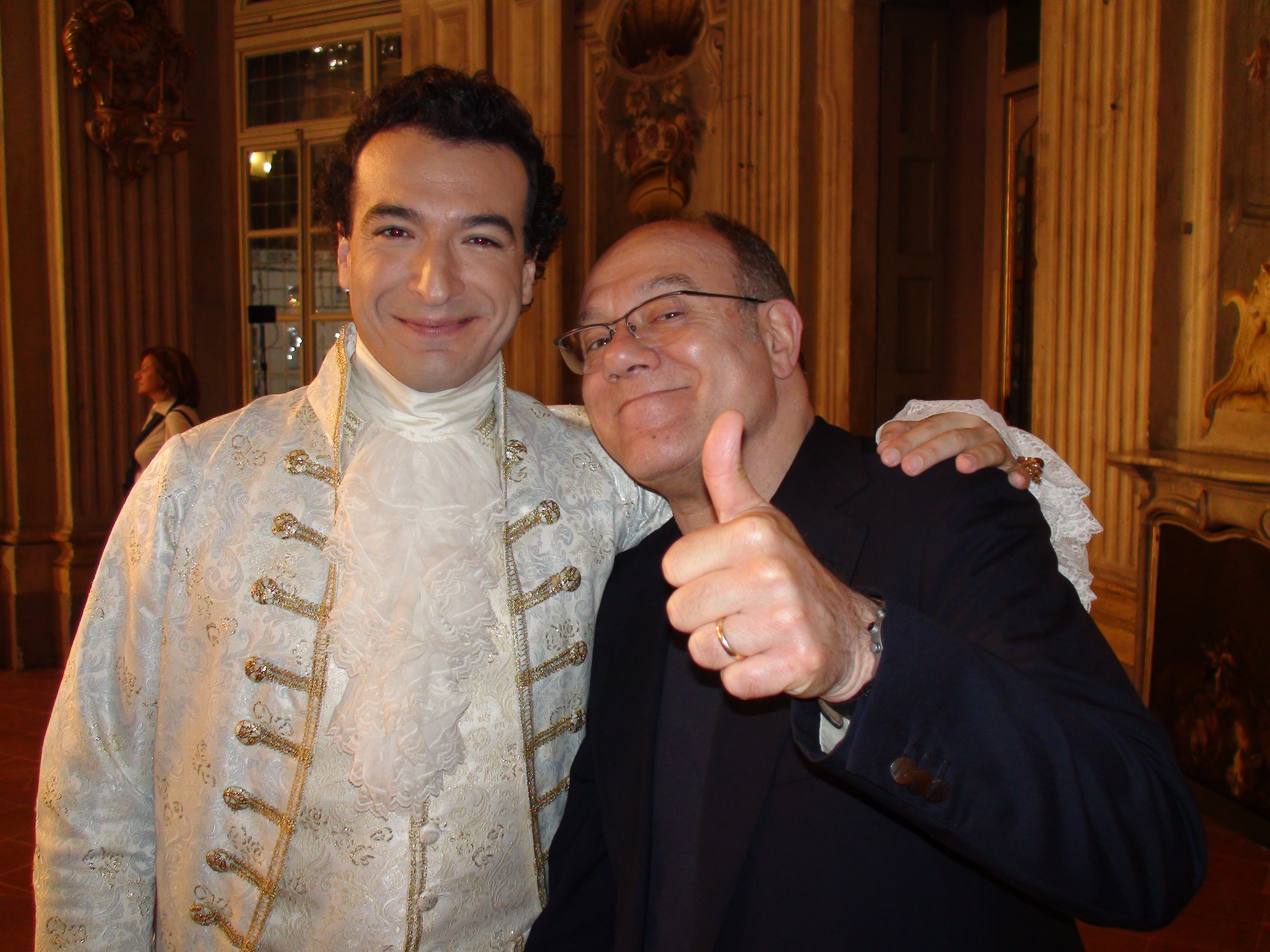 Simone Alberghini with Carlo Verdone on the set of Rossini's Cenerentola for italian Rai TV, 2012.